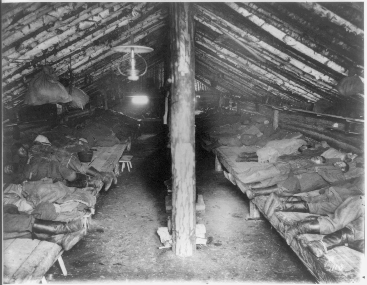 Title: Interior of convict barracks, Khabarovsk area Physical description: 1 photographic print : gelatin silver ; 8 x 10 in. or smaller. Notes: Similar to lantern slide (W7-1082) titled: Convicts' sleeping quarters inside of sod-covered house.; Gift; Colorado Historical Society; 1949.; Title from original negative jacket.; Forms part of: Jackson, William Henry, 1843-1942. World's Transportation Commission photograph collection (Library of Congress).; Photographic print made by LC from Jackson's vintage film negative.